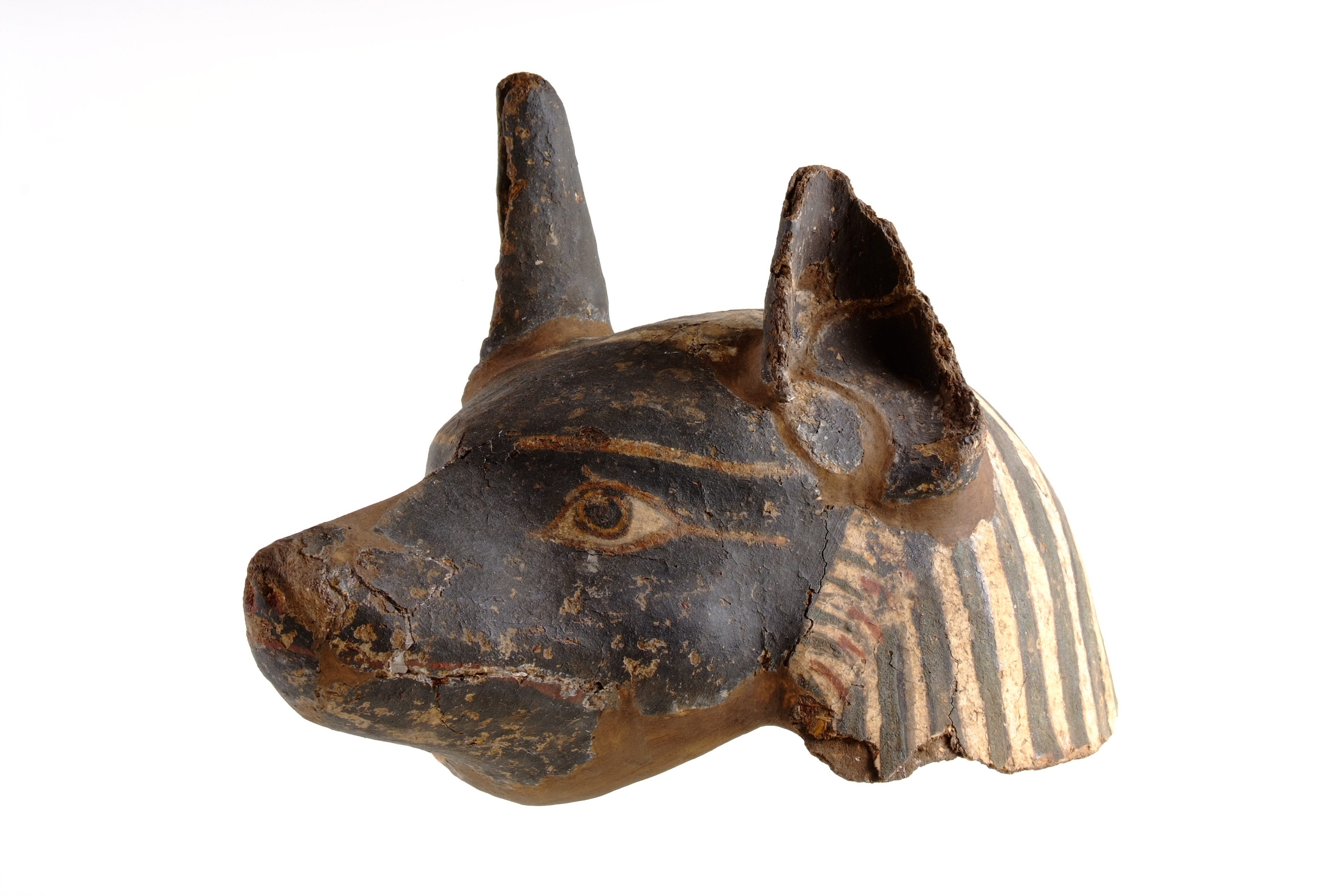 Left three-quarter profile of cartonnage mask depicting the jackal headed god, Anubis. Painted surface, with blue/black and white lines decorating the head-dress. Raised vertical ears, and long nose.Used by priests during mummification rituals. Fragmentary, but all pieces present. The only cartonnage Anubis Mask in existence and one of only two Anubis masks existant - the other a ceramic mask is in Hildesheim, Germany. Mask likely to be worn by a male priest playing the part of Anubis in a temple during mummification or burial ritual. Probably buried with the priest who had worn it in life.